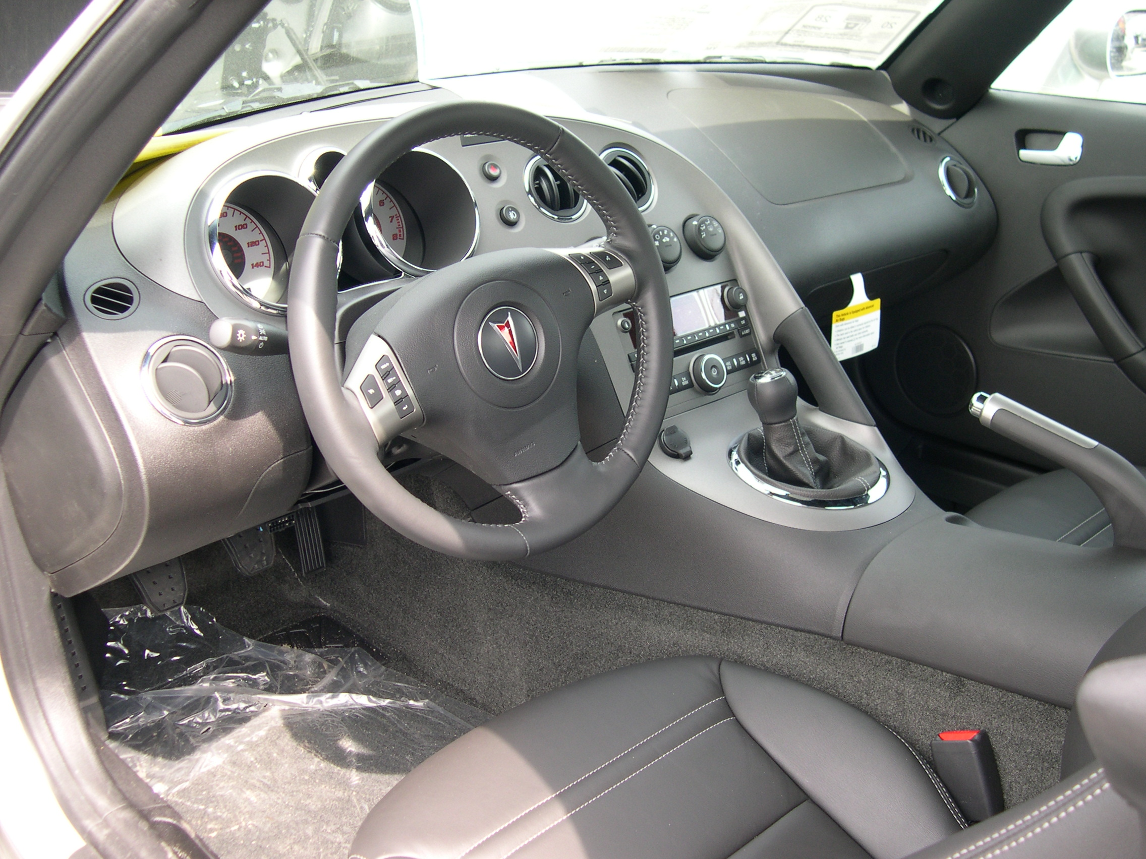 2006 Pontiac Solstice Photo by Stephen Foskett